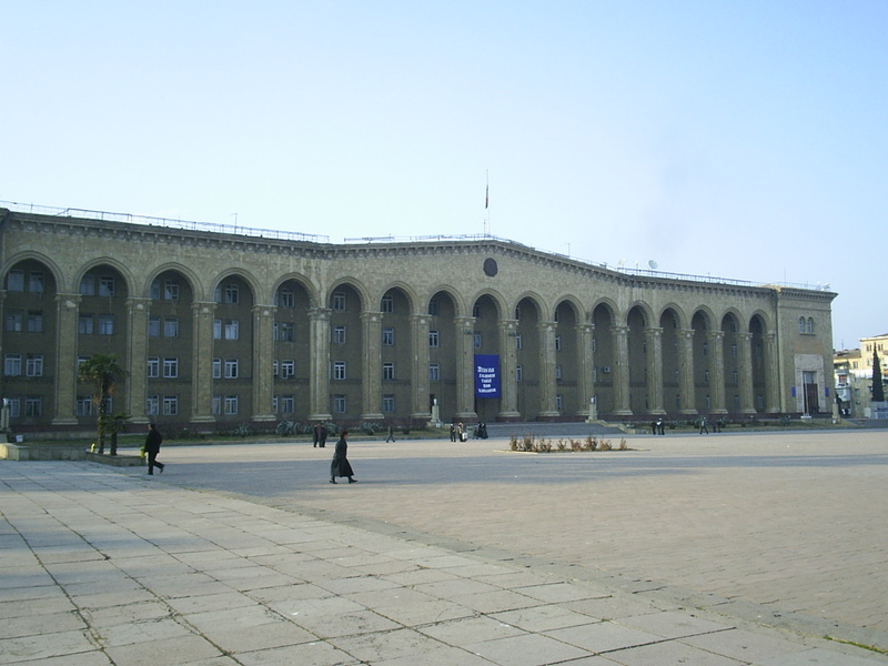 Ganja City Hall building. Picture taken by me in summer 2010.